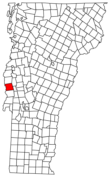 Description: Map of Vermont towns with Shoreham highlighted Source: Map created by Jared C. Benedict on 26 March 2004. Copyright: © Jared C. Benedict.